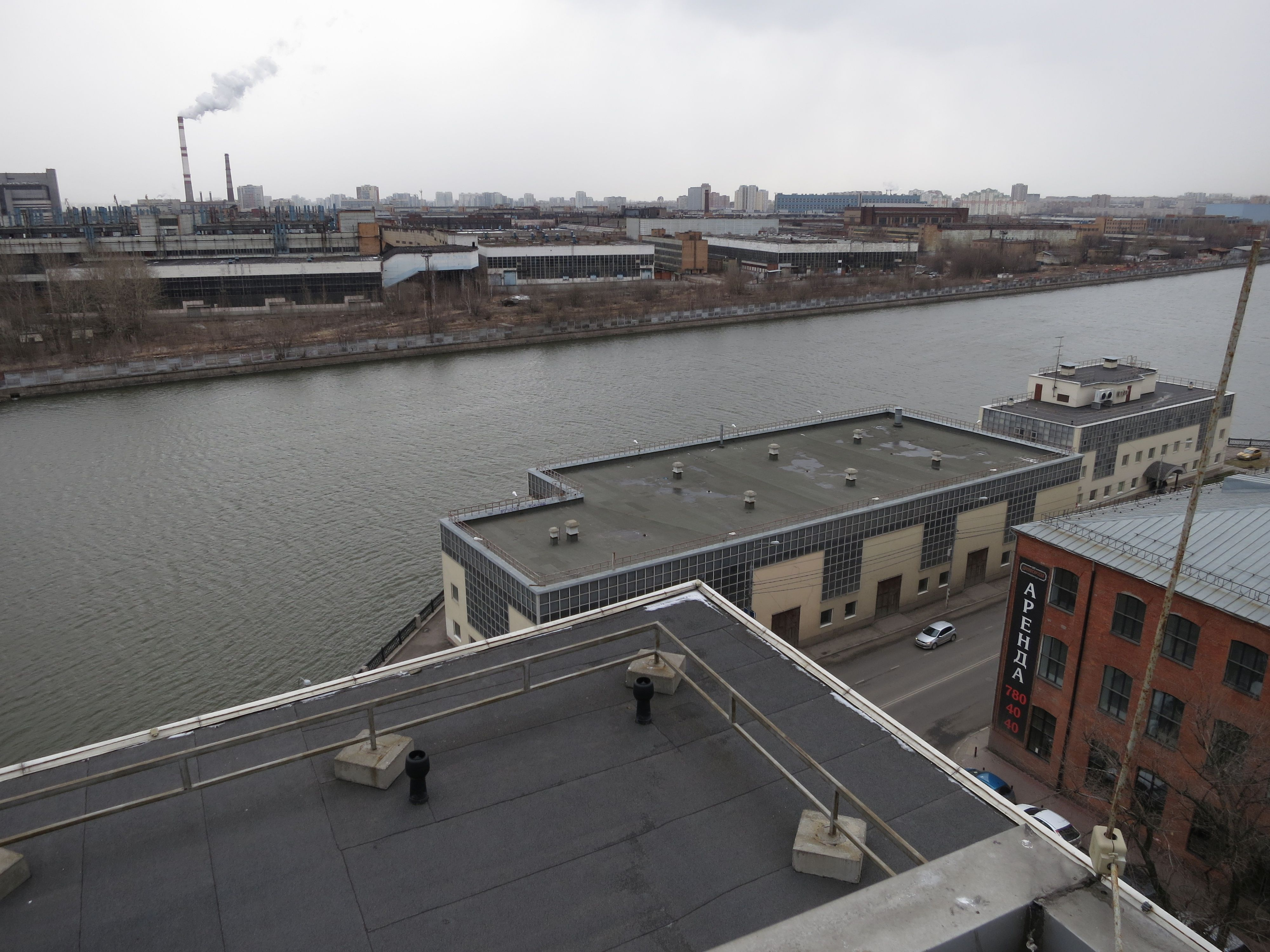 Новоданиловская улица Москва